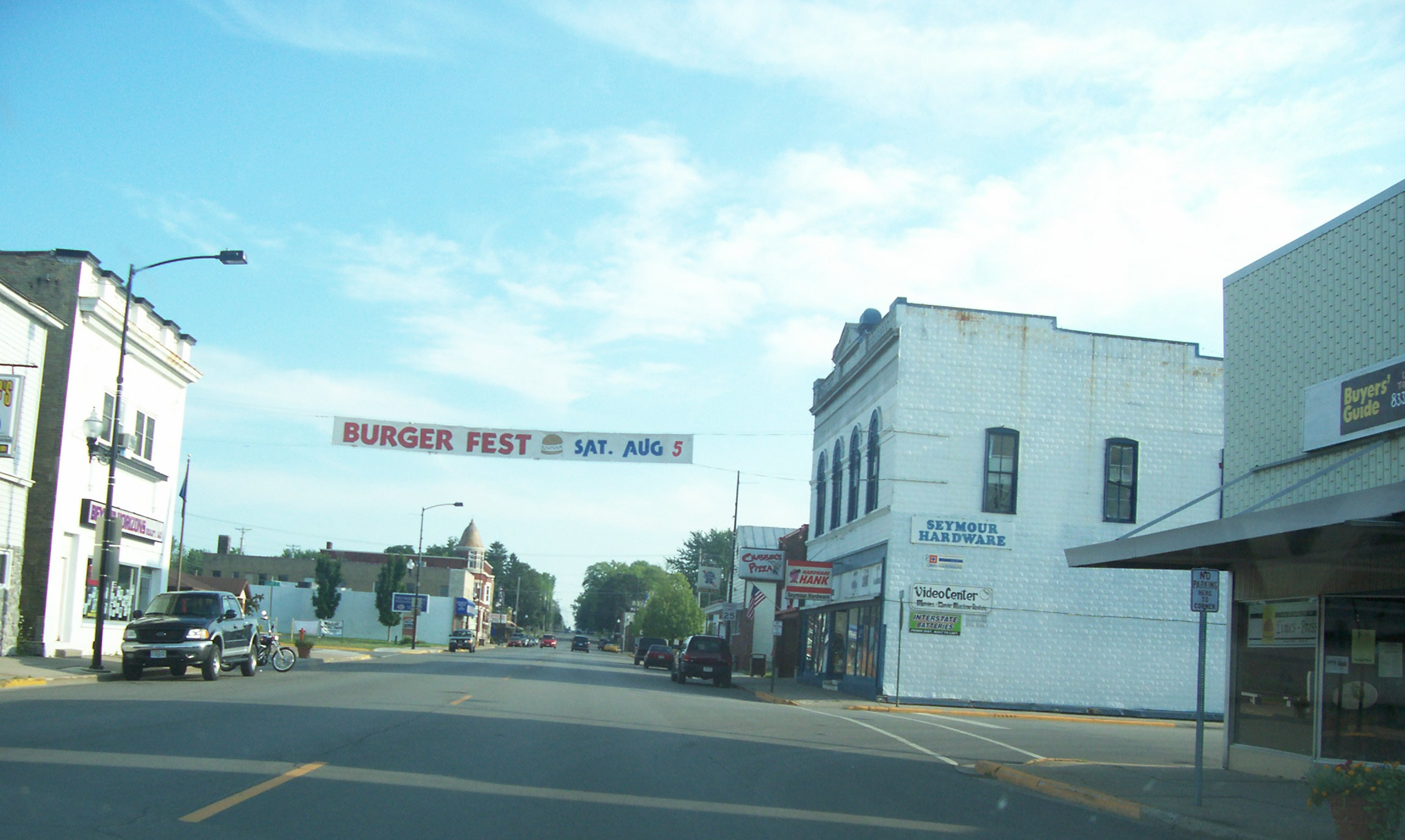 Looking south in Seymour, Wisconsin, USA on Wisconsin Highway 55. Banner advertises Burgerfest on August 5, 2006. Taken by myself on July 30 2006